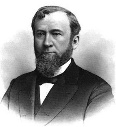 Robert Milton Speer (Pennsylvania Congressman)